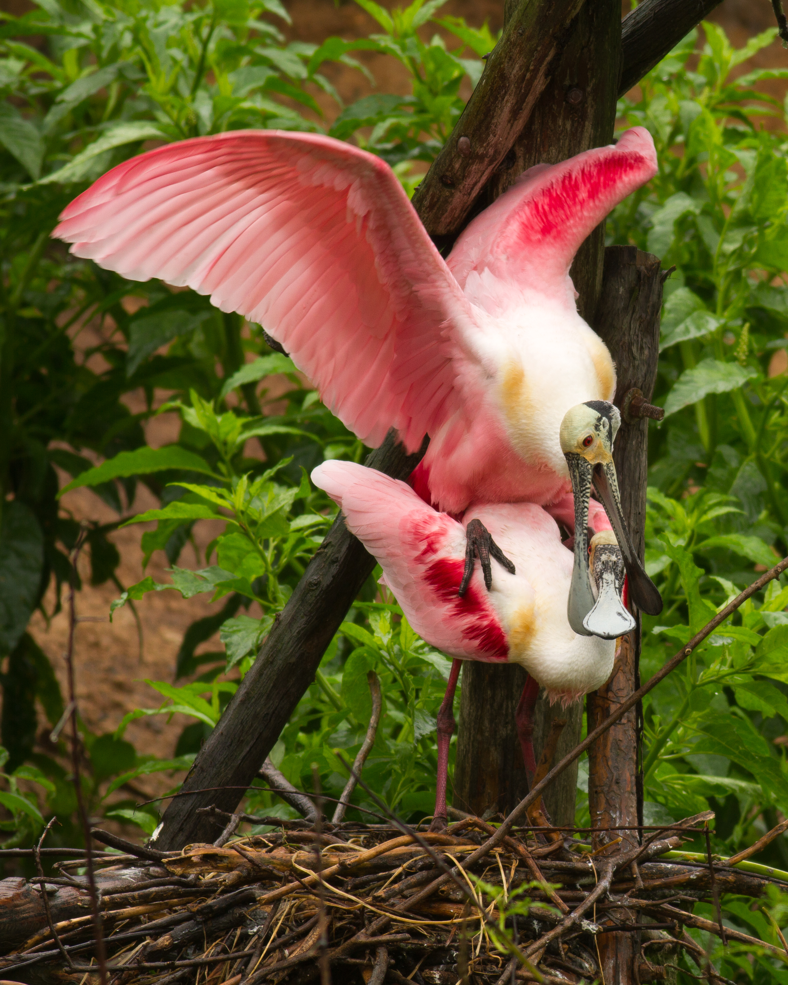 Roseate spoonbills (Platalea ajaja) at Smith Oaks Sanctuary, High Island, Texas, mating Sunda: Ibis-séndok jambon (Platalea ajaja) keur jalangan di Suaka Margasatwa Smith Oaks, High Island, Téxas